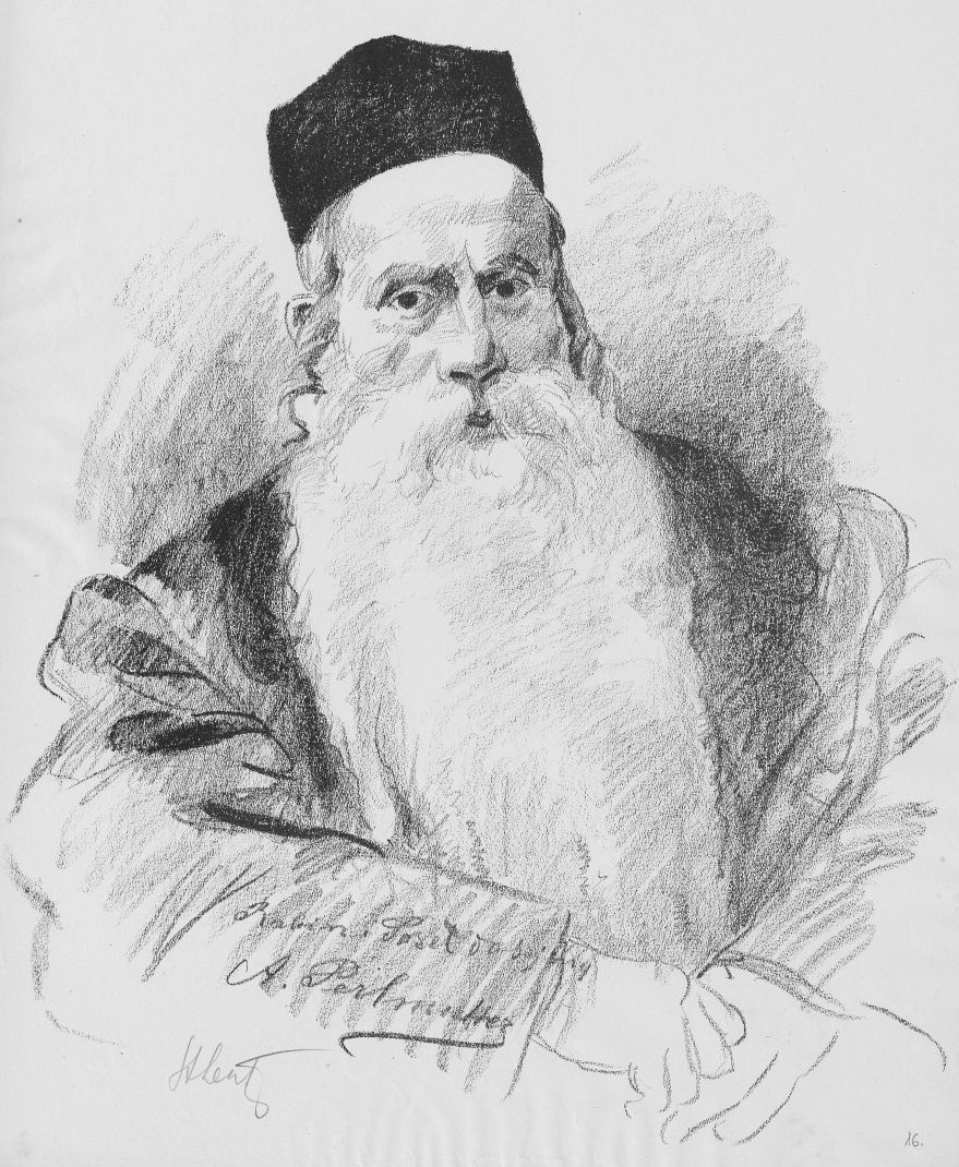 Rabbi Abraham Perlmutter